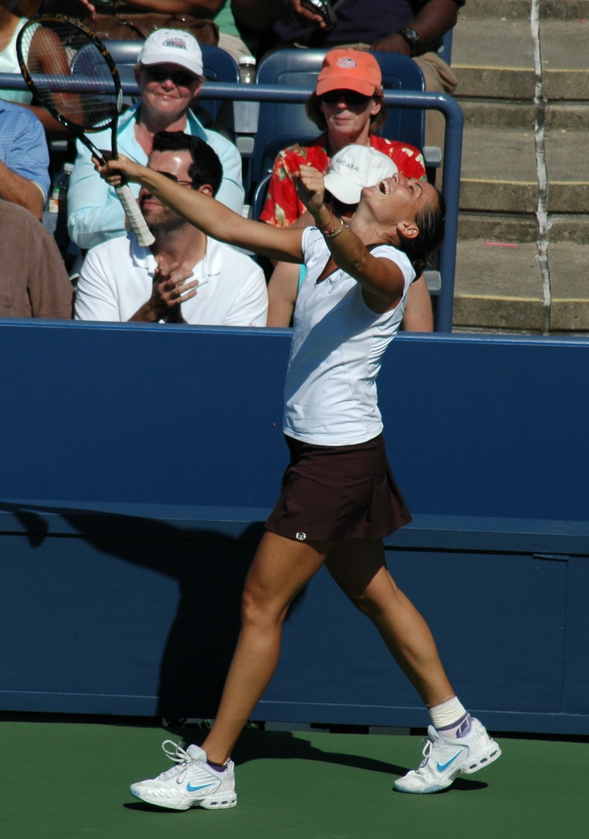 Flavia Pennetta at the 2008 US Open